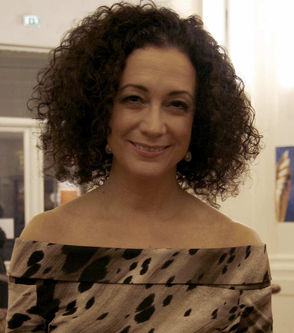 Actress Barbara Wussow at the Nestroy-Theaterpreis (Etablissement Ronacher, Vienna)